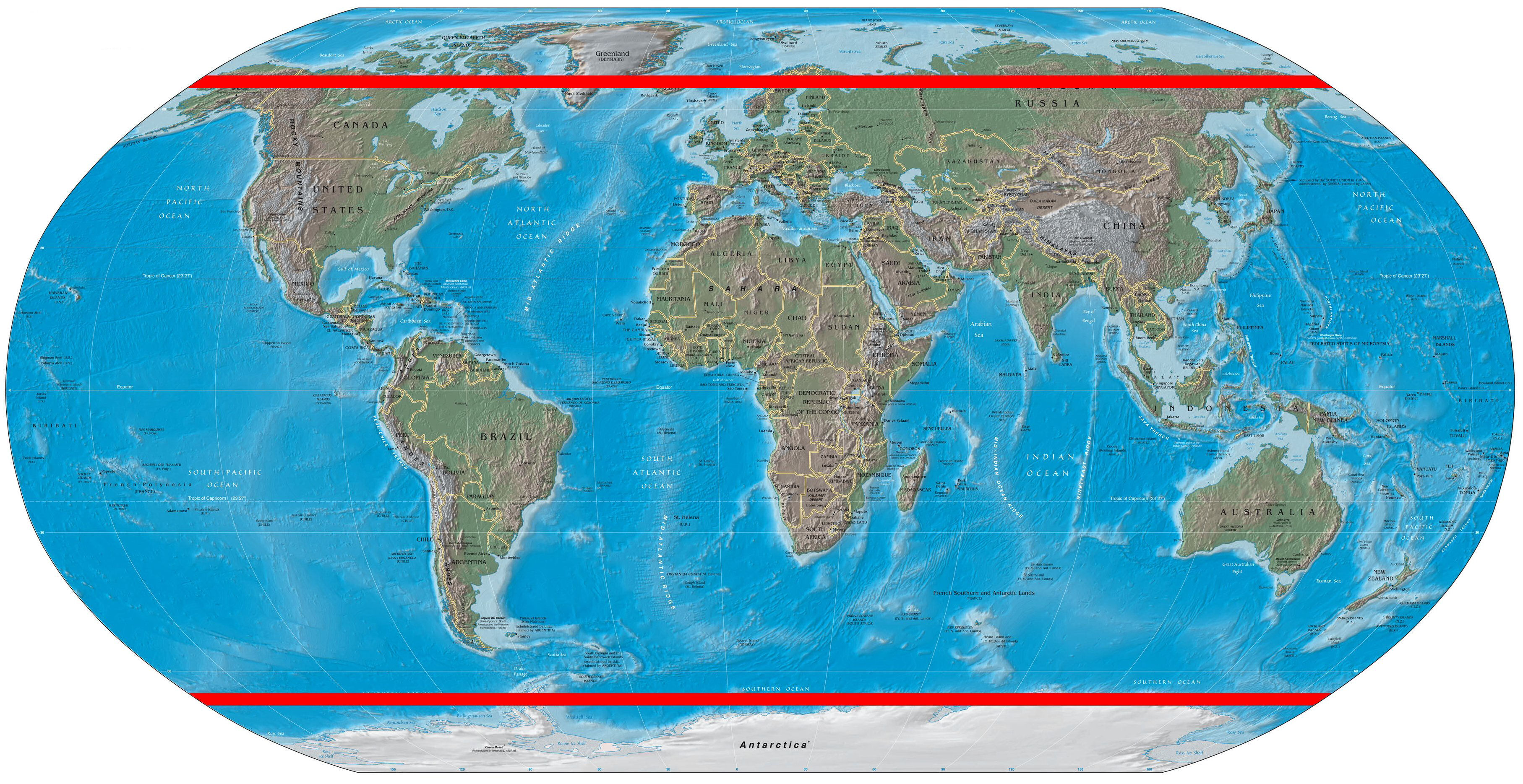 World map with polar circles bolded in red.